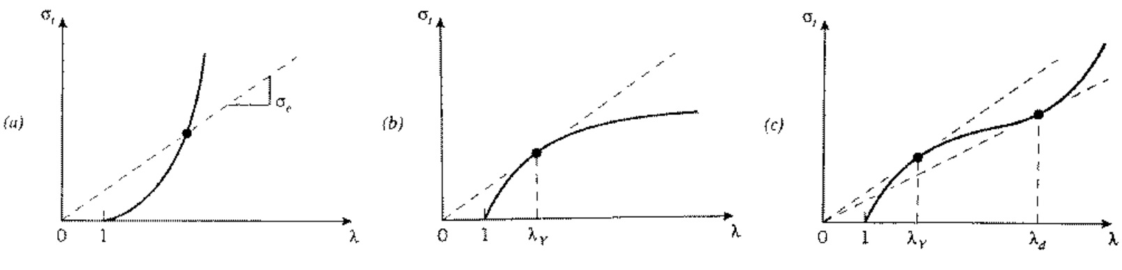 dd